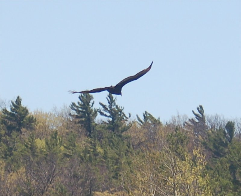 Eagle flying over Thacher Park in New Scotland, New York, United States